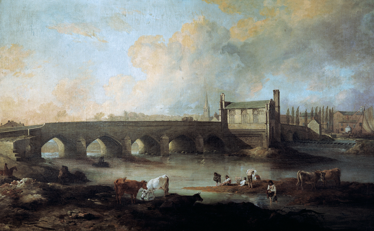 "Wakefield Bridge and Chantry Chapel," oil on canvas, by the British artist Philip Reinagle, R.A. Dated 1793. 153.5 cm x 245.5 cm. Courtesy of the collection of the Hepworth Museum, Wakefield.